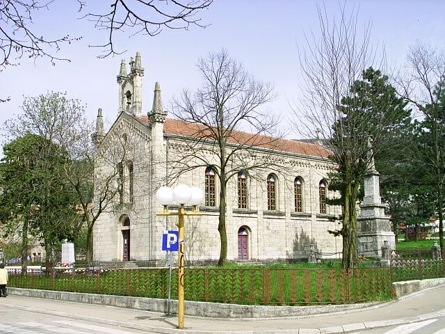 Central part of the town of Bileća, Bosnia and Herzegovina. A military catholic church (without a tower) is depicted